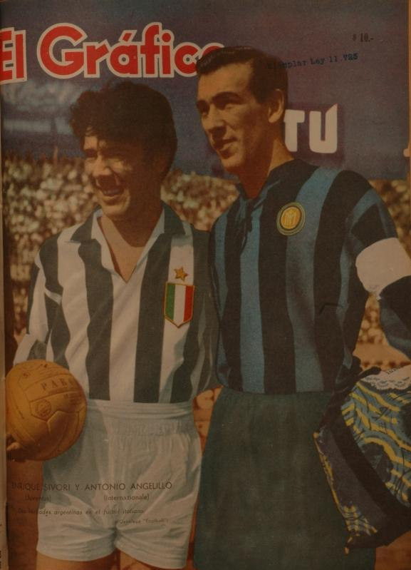 Omar Sívori (Juventus) and Antonio Angelillo (Internazionale)